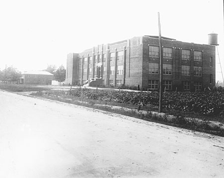 Princeton School in Johnston County, NC circa 1930. Taken from the front of the school along what is now Dr. Donnie H. Jones, Jr. Blvd. School was demolished in 1998 after a new school was built around it.